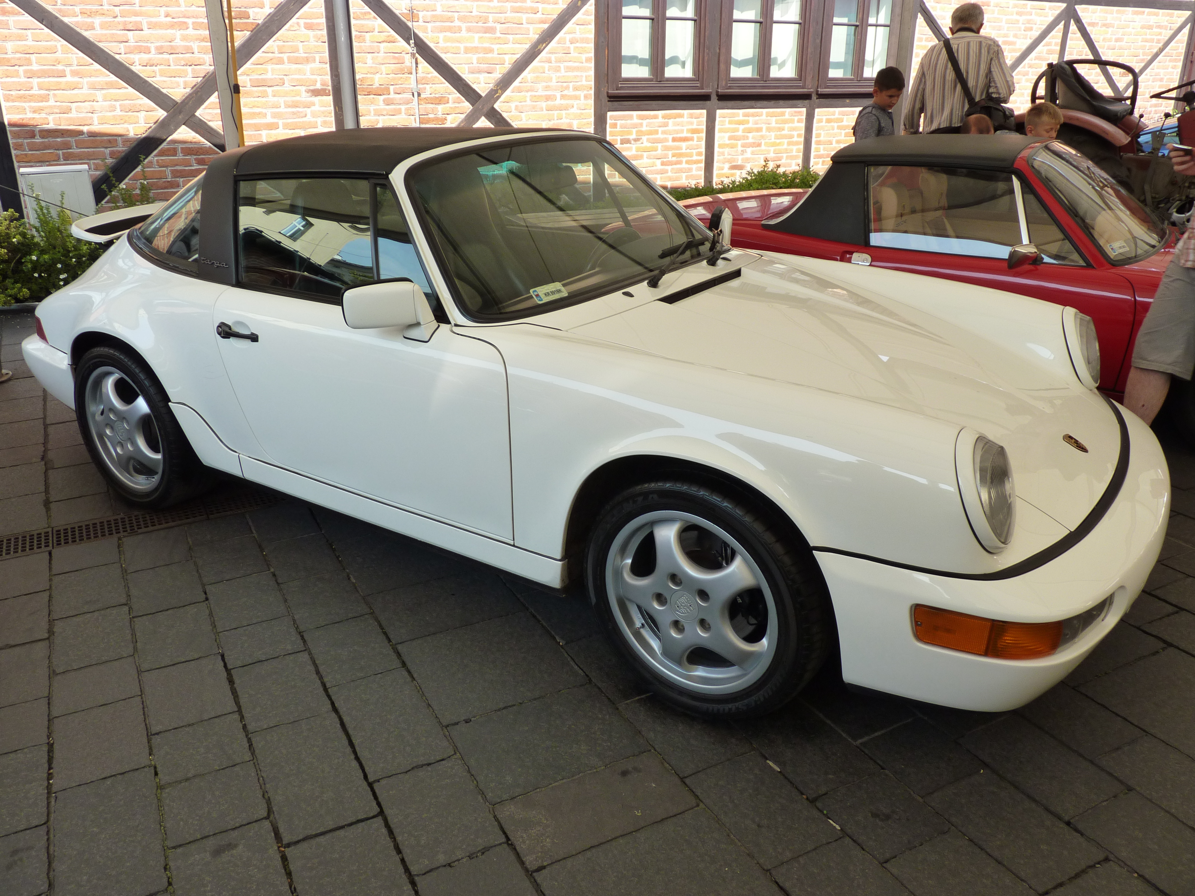 Classic Moto Show 2014 in Kraków.